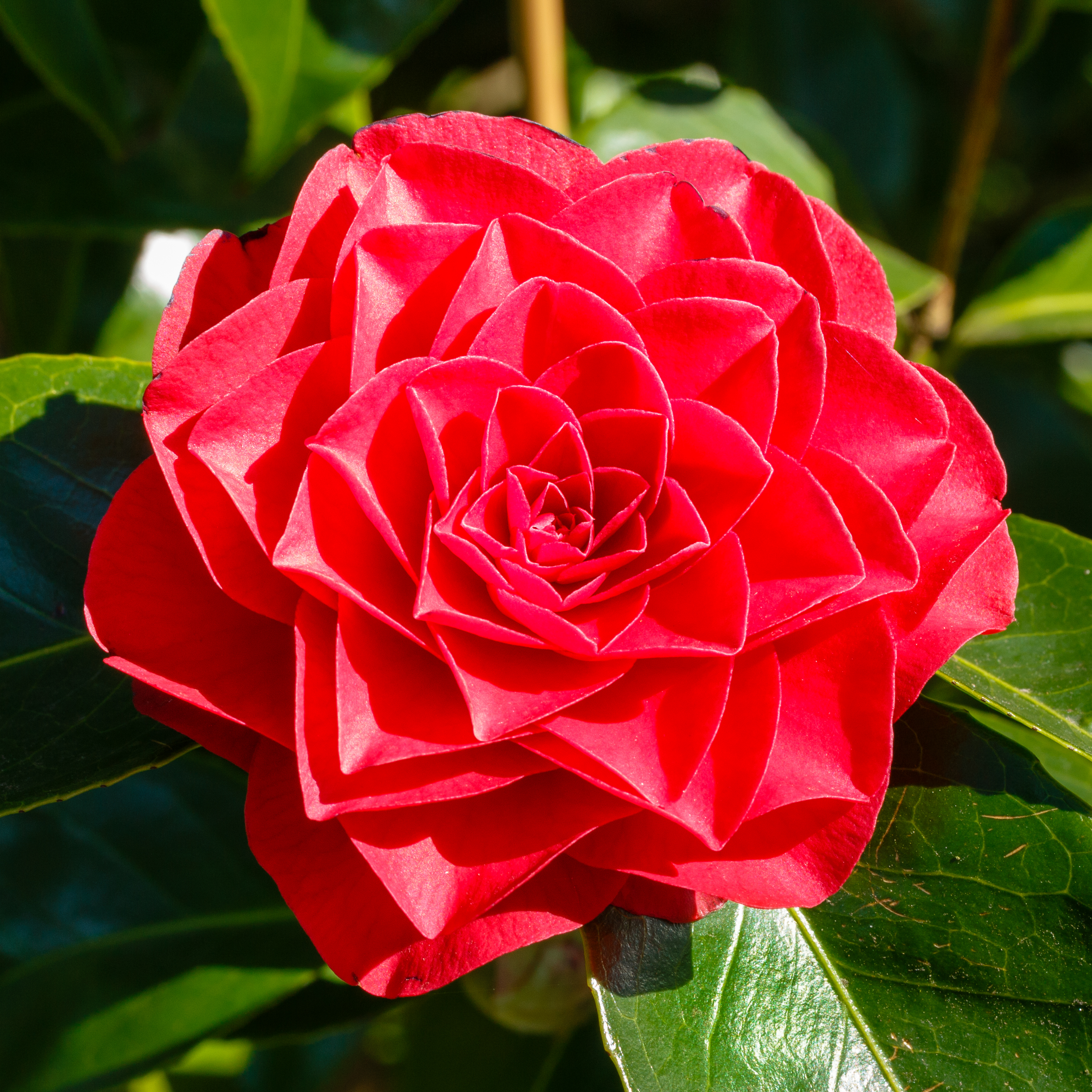 Camellia x williamsii 'Roger Hall. Location, Garden Tuinreservaat Jonker Valley.